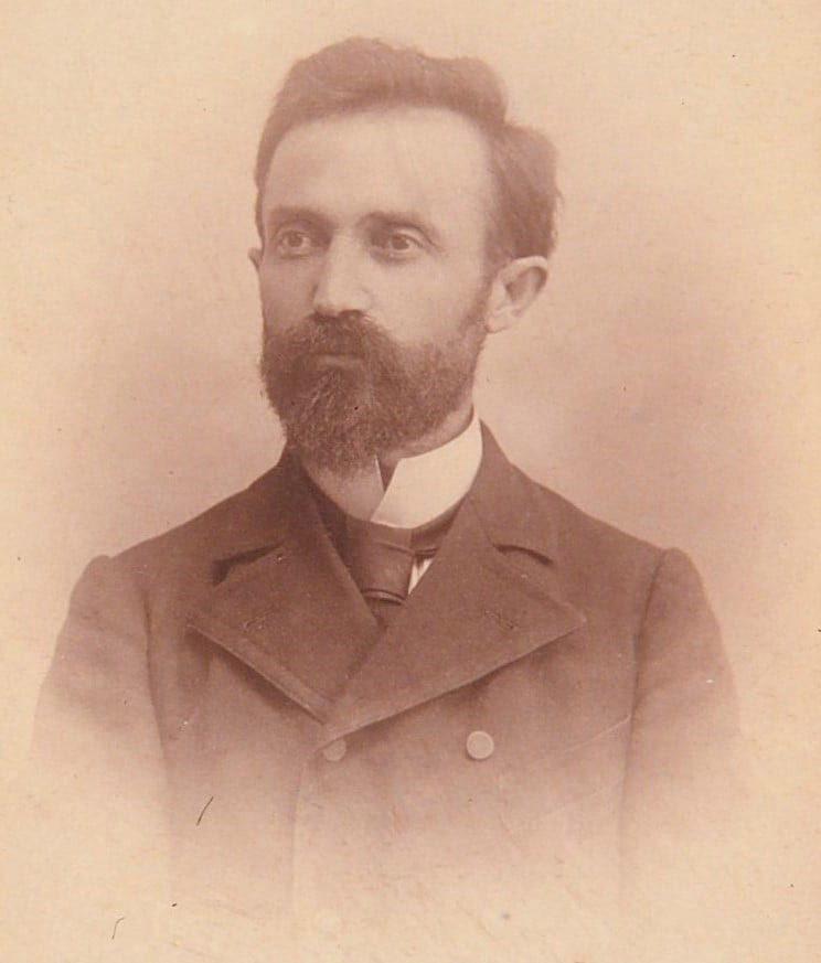 Picture of Simon Zavarian, image taken and modified from [1], picture taken during late 1800s, early 1900s